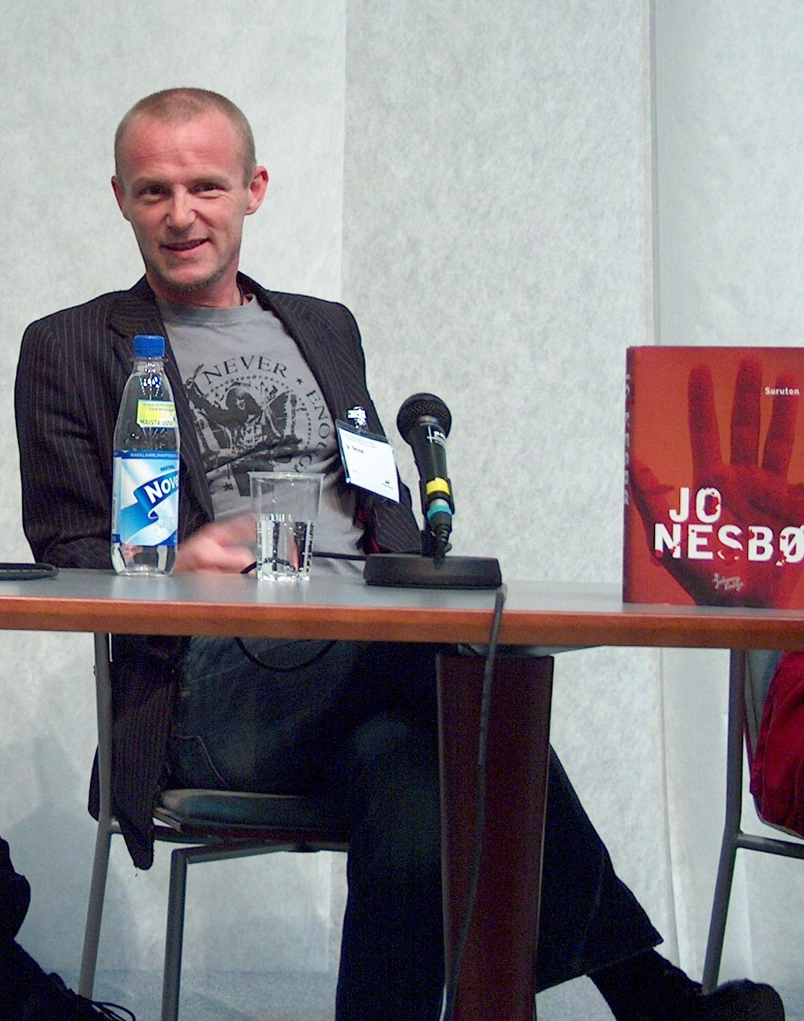 Jo Nesbø at The Helsinki Book Fair 2005